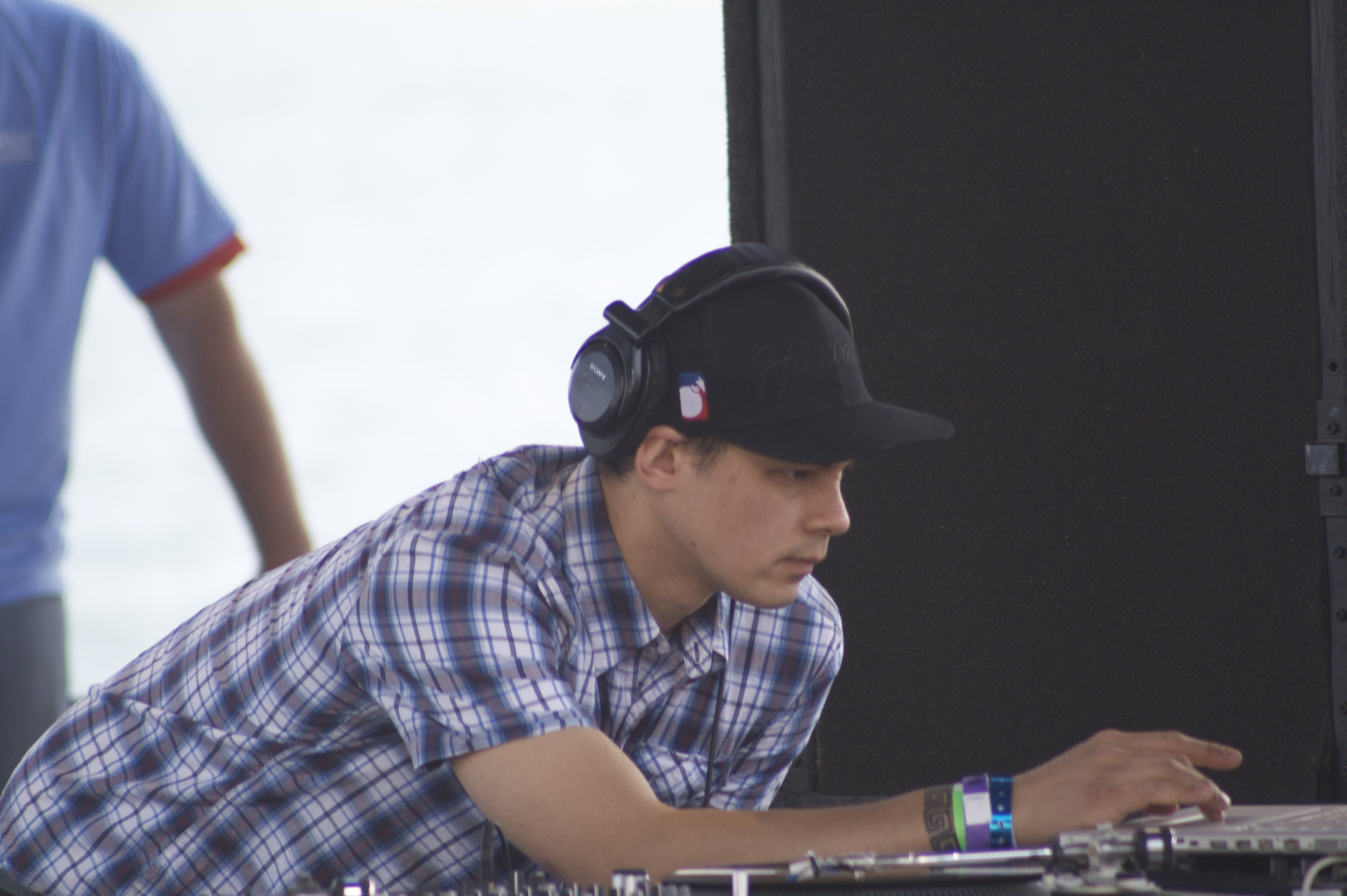 Michna photographed by Dave Walker